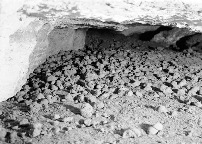 Interior view of Rampart Cave, Lake Mead National Recreation Area, Grand Canyon, Mohave County, Arizona - detail of sloth dung - sept 1938. NPS.